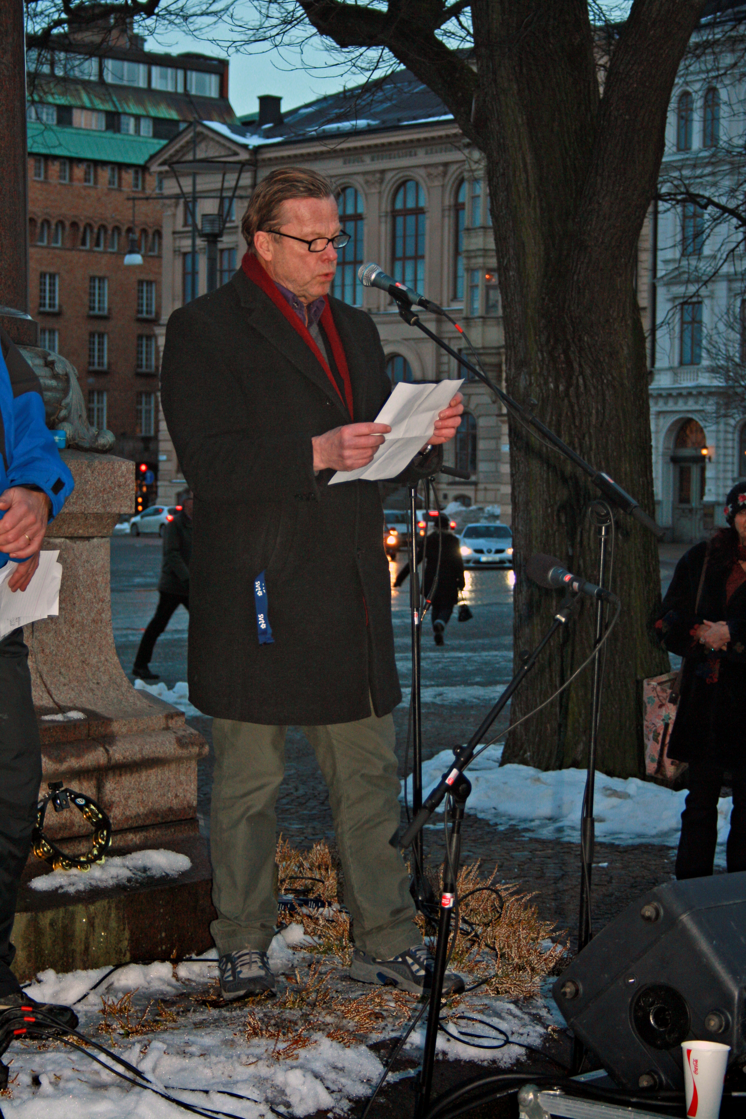 Krister Henriksson at 'Fredag för frihet' in Stockholm 04/03/2011. He read a poem about Nelson Mandela.